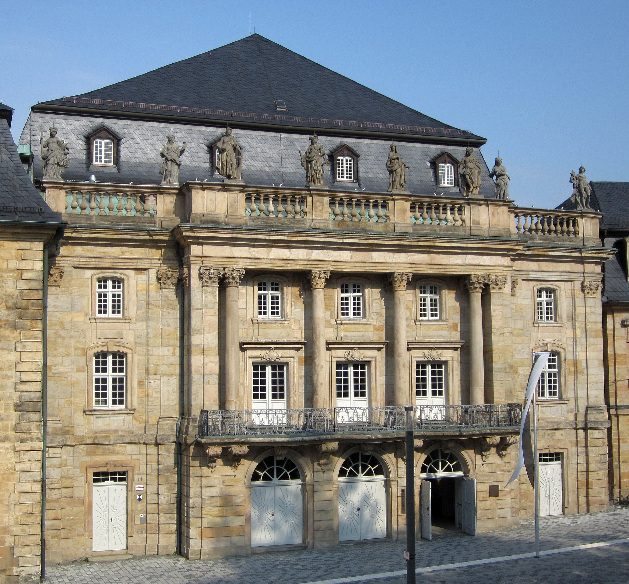 Front view of the Margravial Opera House in Bayreuth, festival season 2019.